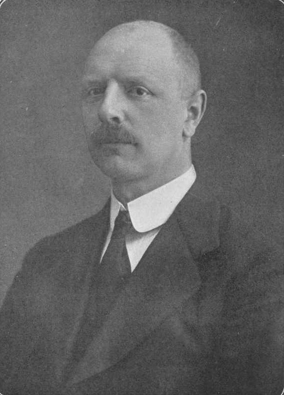 name J. W. ALBARDA.. political affiliationSocial Democratic Workers' Party